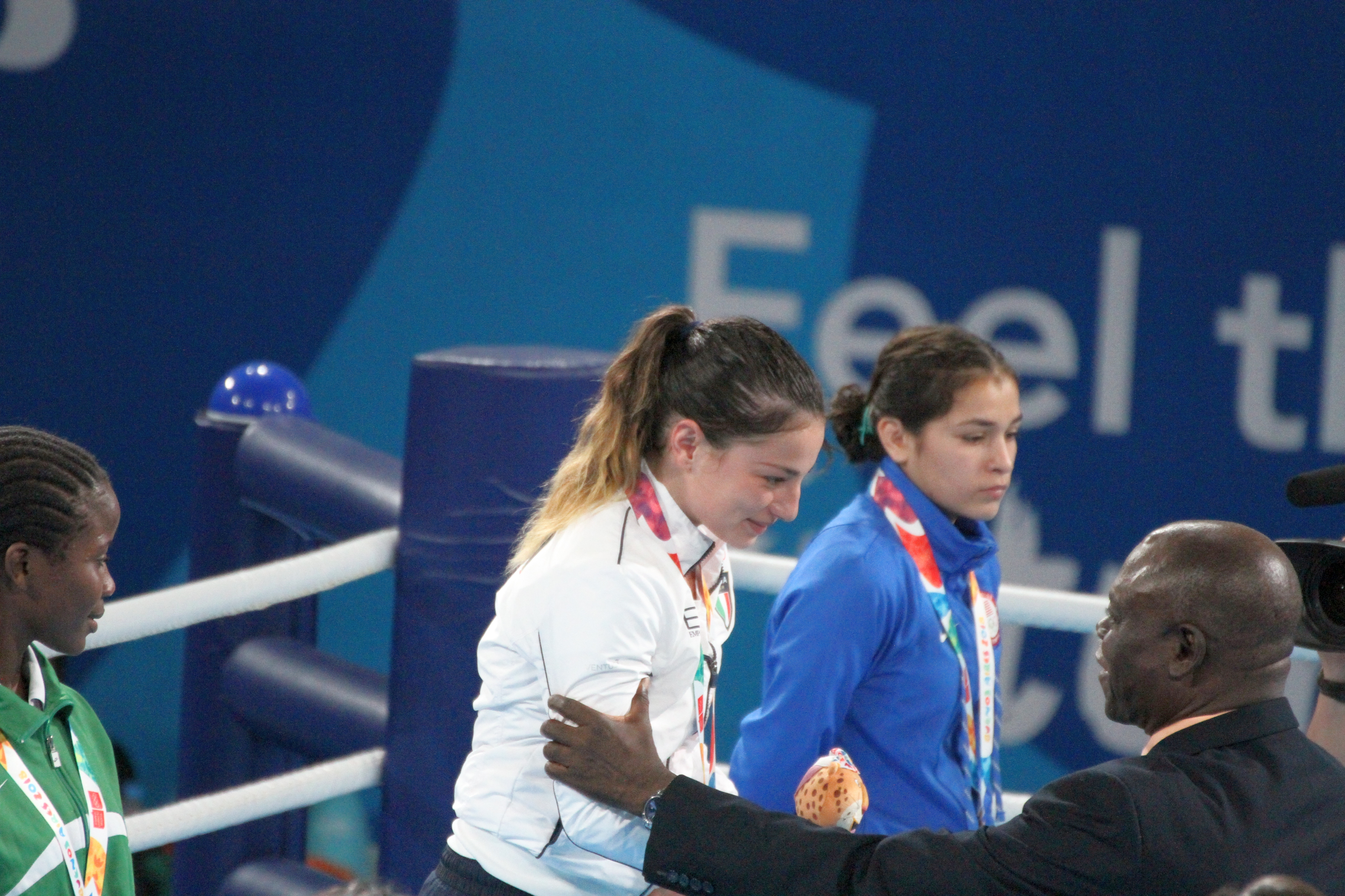 Boxing at the 2018 Summer Youth Olympics on 18 October 2018 – Girl's flyweight Medal Ceremony - Gold: Martina La Piana (Italy), Silver: Adijat Gbadamosi (Nigeria), Bronze: Heaven Destiny Garcia (USA); Medal handover by Habu Gumel (IOC, Nigeria), Gift presented by Dr. Joseph O. Ayeni (Nigeria, AIBA).